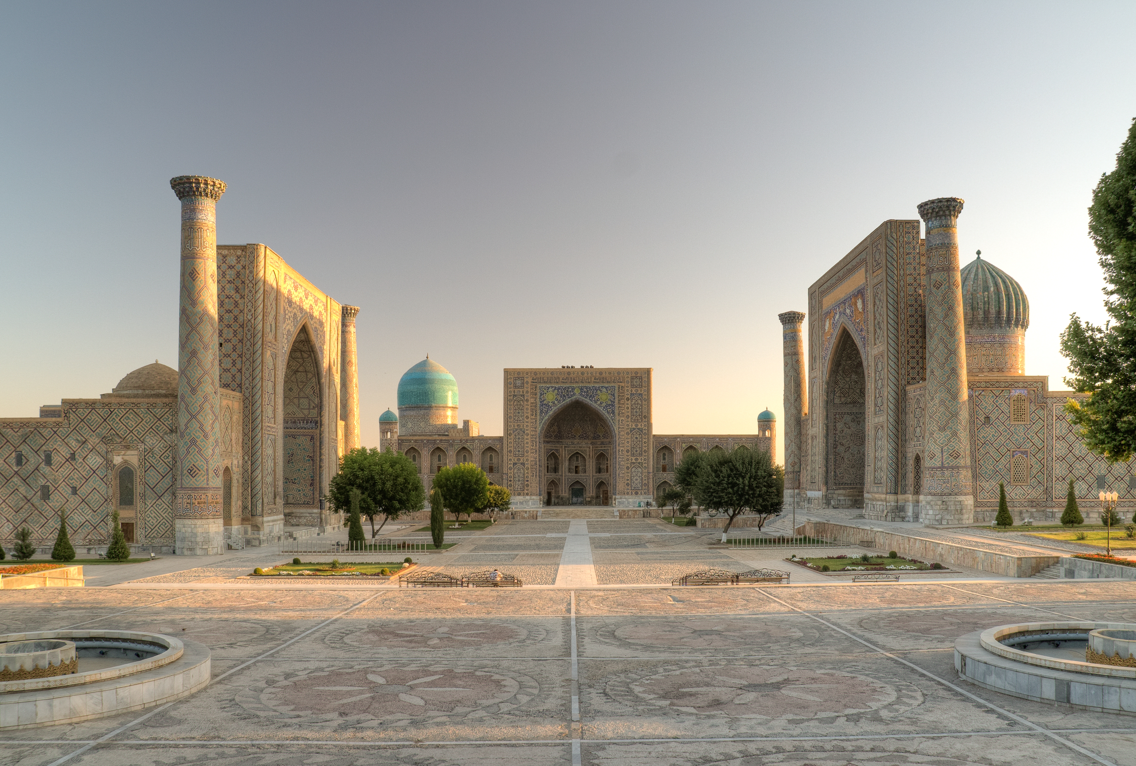 Registan square after sunset in Samarkand, Uzbekistan